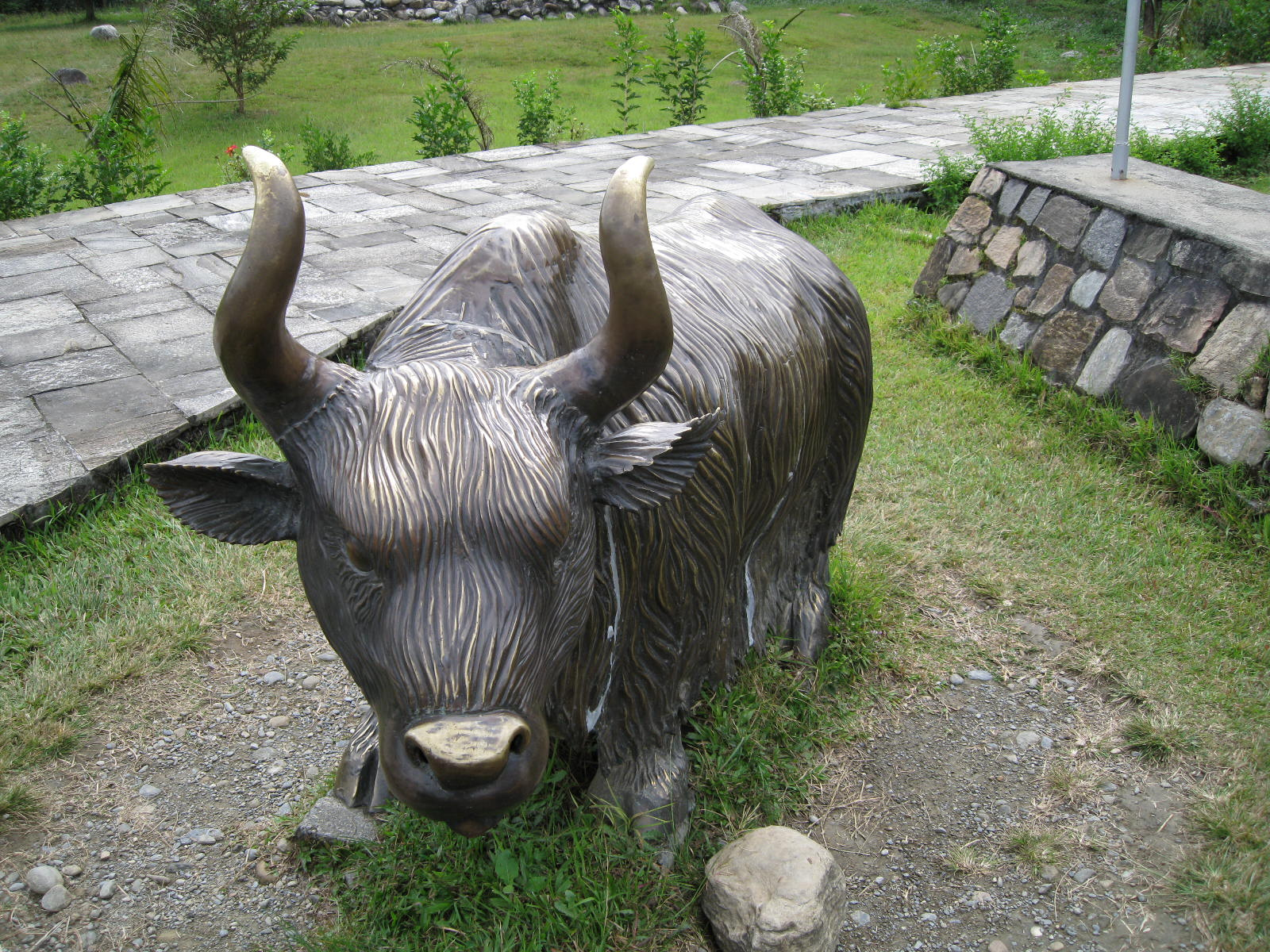 International Mountain Museum, Pokhara, Nepal.